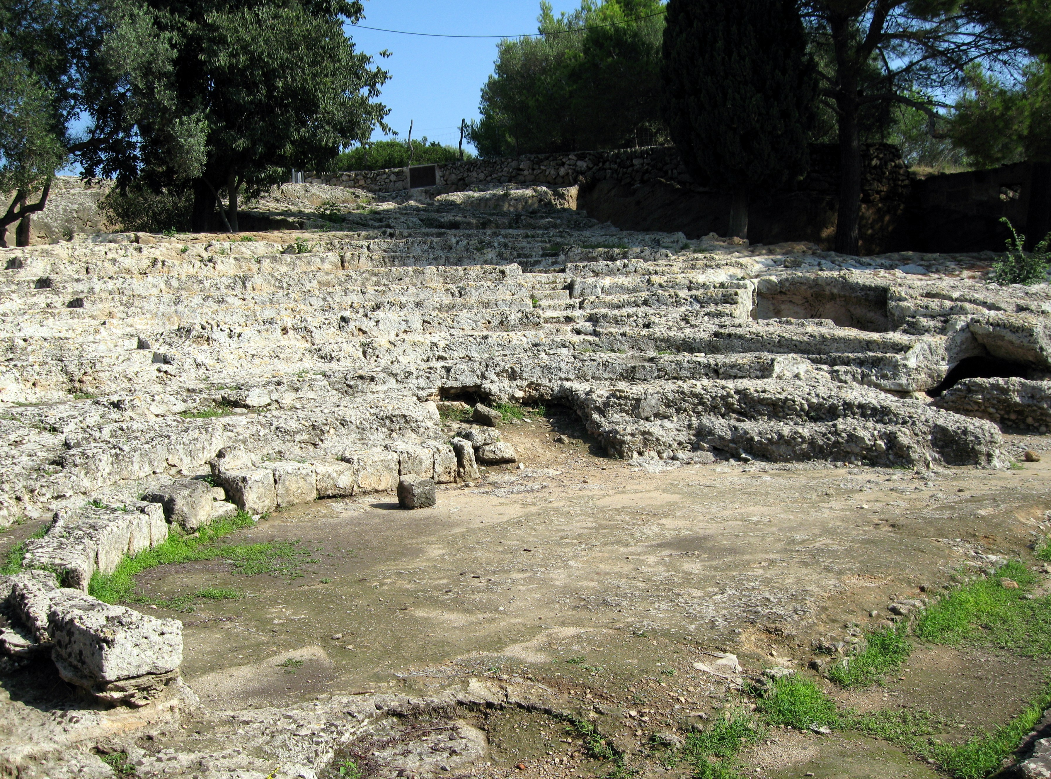 The ruins of the Ancient Roman theatre in Pollentia (Pol·lèntia), Alcúdia, Mallorca, Spain.